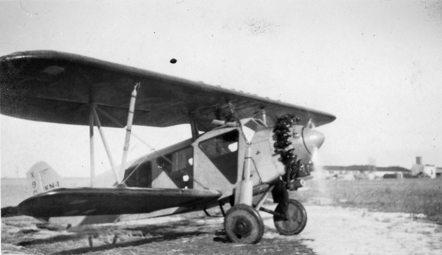 PictionID:56241273 - Catalog:AL253_000104.tif - Title:Knoll KN-1 NX9090 01 - Filename:AL253_000104.tif - Image from Album 253 which belonged to Franz Schell-----Please Tag these images so that the information can be permanently stored with the digital file.---Repository: San Diego Air and Space Museum